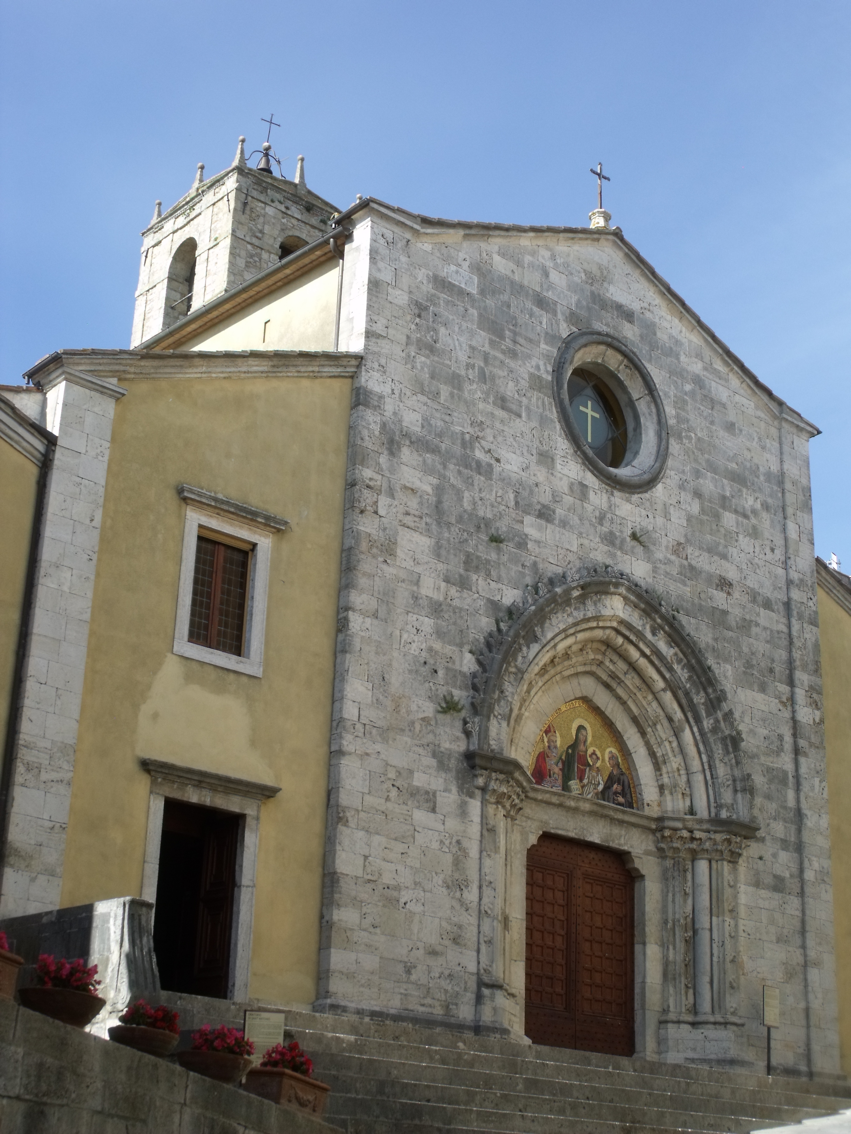 Church Collegiata dei Santi Leonardo e Cassia in San Casciano dei Bagni, Province of Siena, Tuscany, Italy